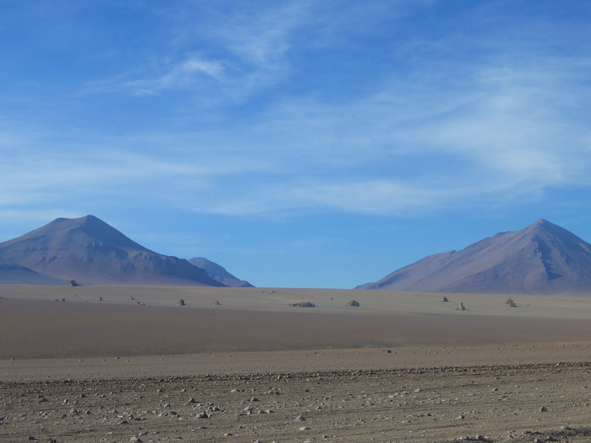 Salvador Dali desert rocks, Bolivia